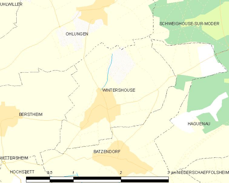 Map of French municipality